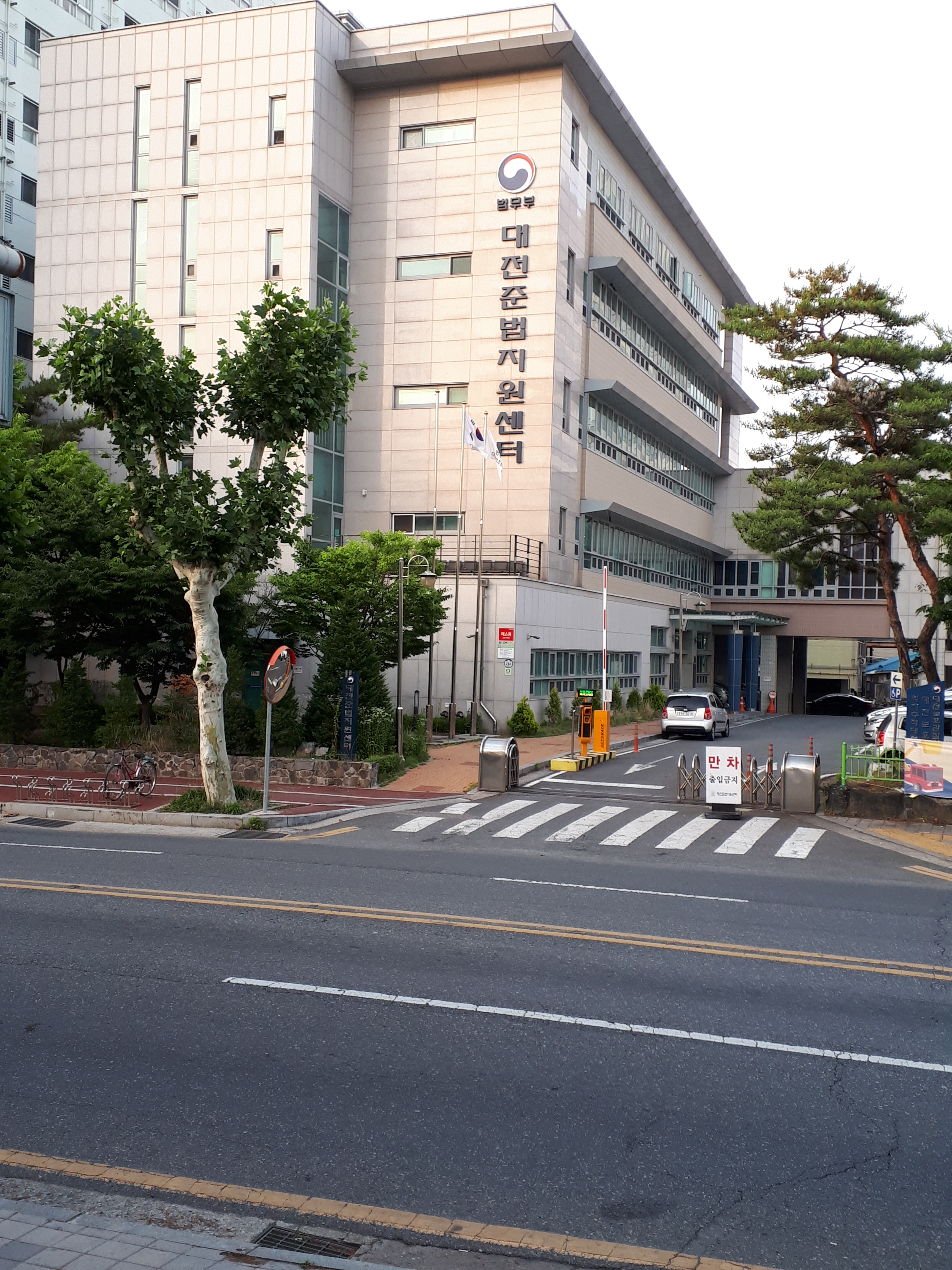 Daejeon Probation Office